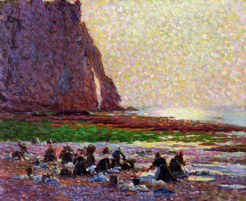 Laundresses by the Sea at Etretat, 1887